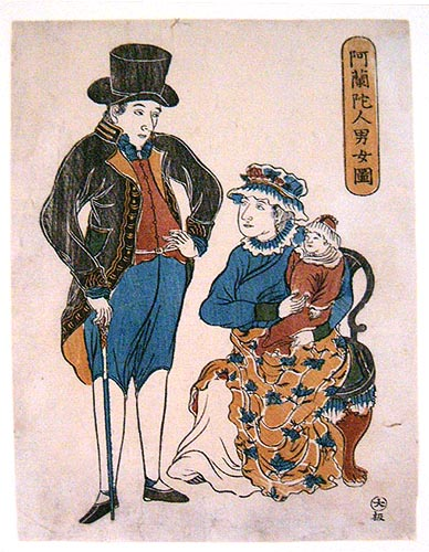 director ("opperhoofd") of Decima, the Dutch trading colony in the harbour of Nagasaki, Japan - with his litte son Johannes in the arms of Petronella Munts, a Dutch nurse-maid